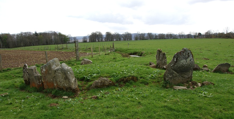 Ballymeanoch, Kilmartin Glen, Scotland - cairn